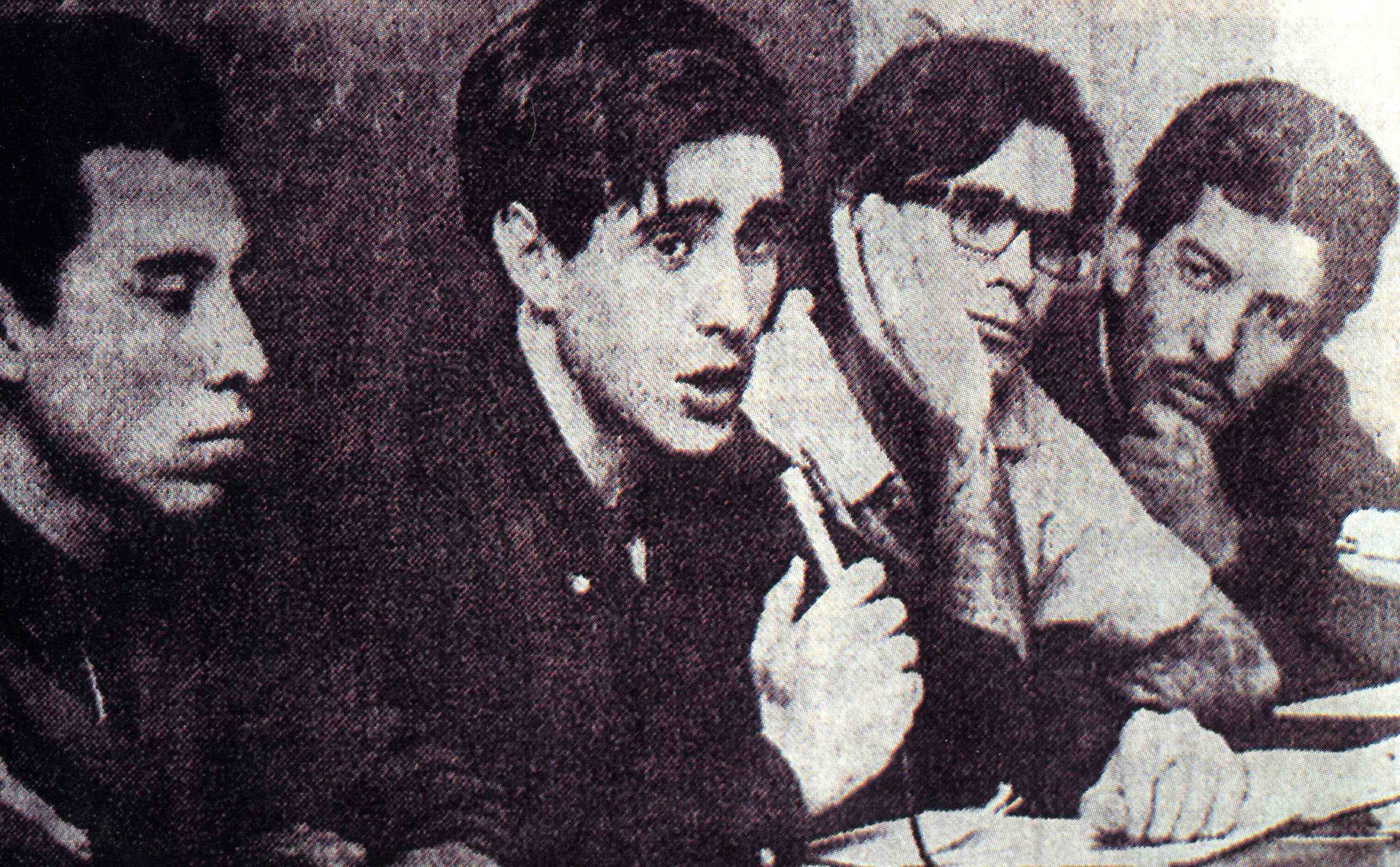 M. Perelló and comrades at the 6 october press conference, 1968